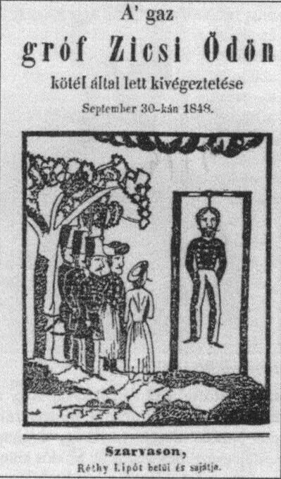 Zichy Ödön a bitófán 1848. szeptember 30-án